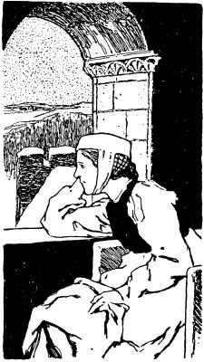 Illustration to Snow White by Otto Ubbelohde